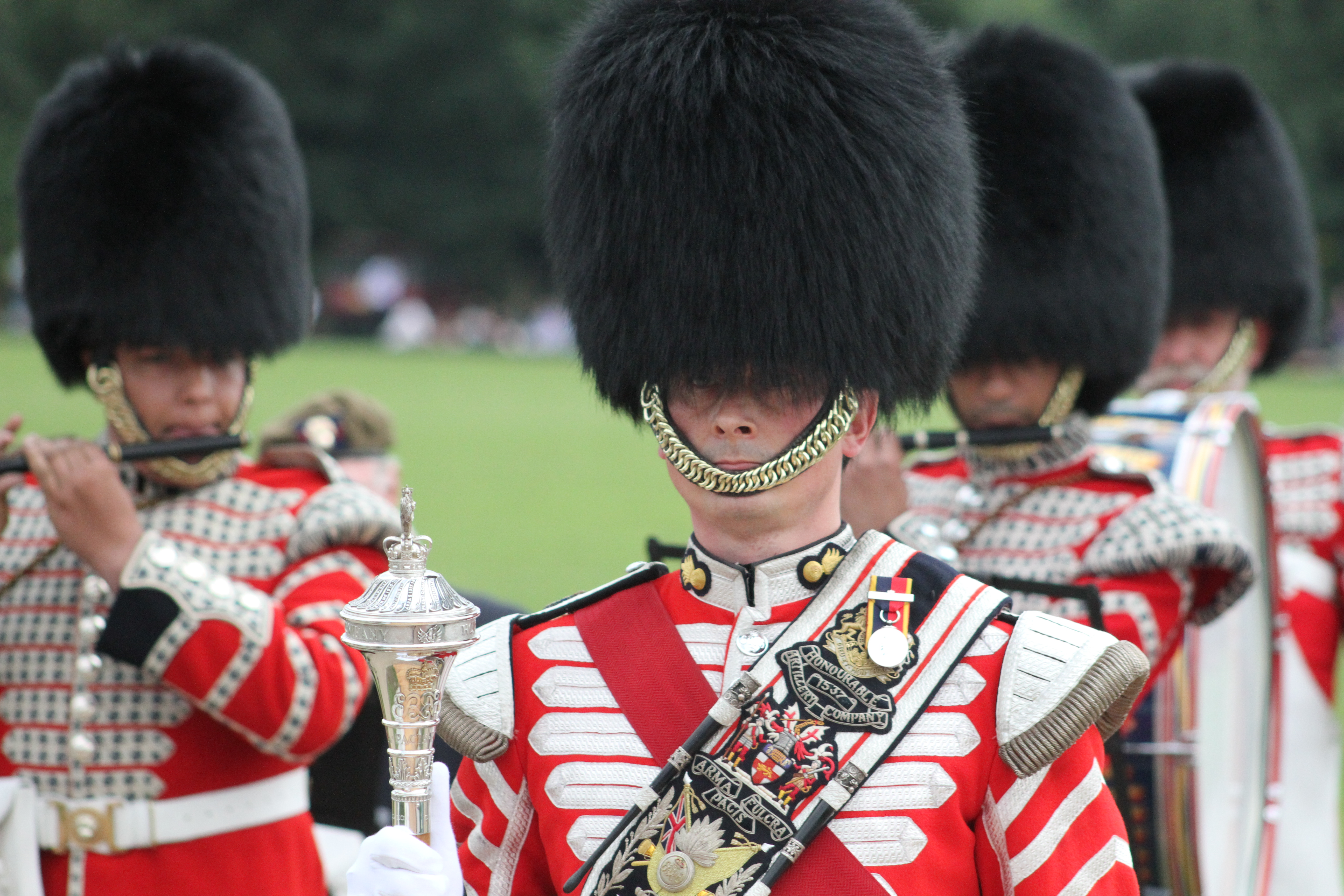 Honourable Artillery Company Corps of Drums at the HAC polo day, Ham Polo Club, 2010.